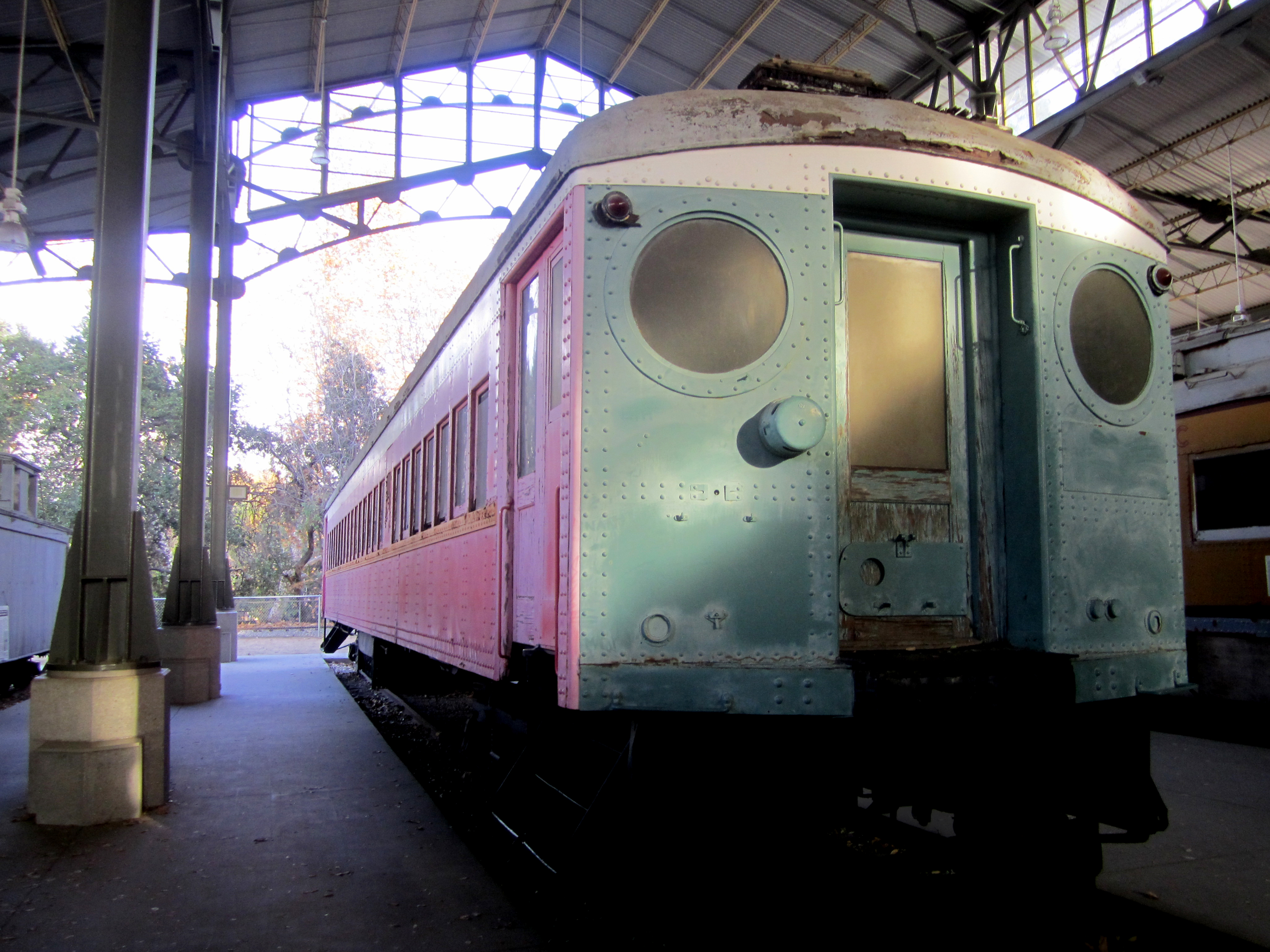 Travel Town Museum, Griffin Park